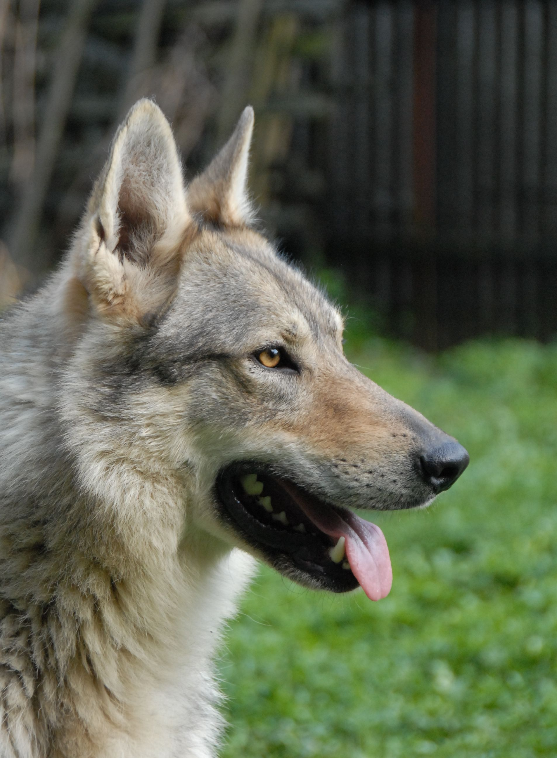 Czechoslovakian Wolfdog: Enor Malý Bysterec